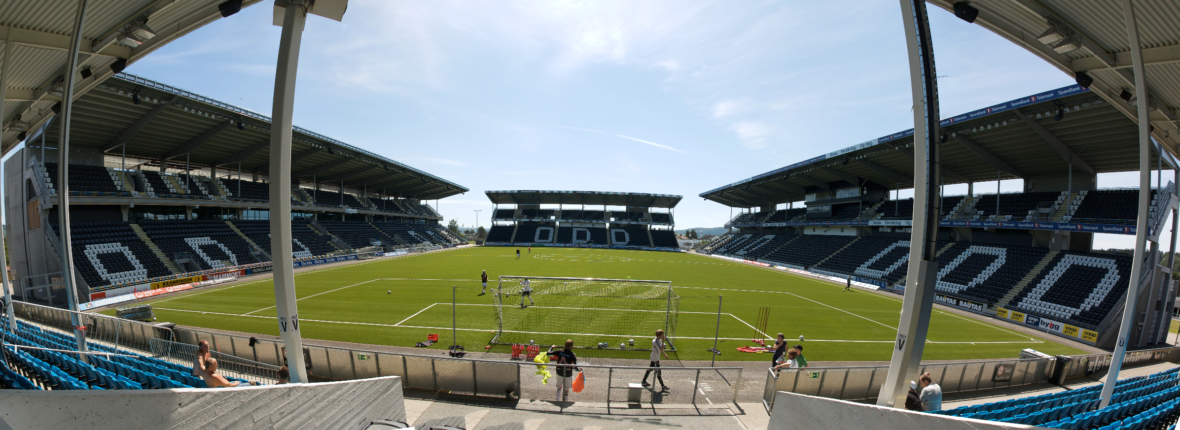 Skagerak Arena, a football stadium in Skien, Norway. The panorama image is a composit of 10 individual images.